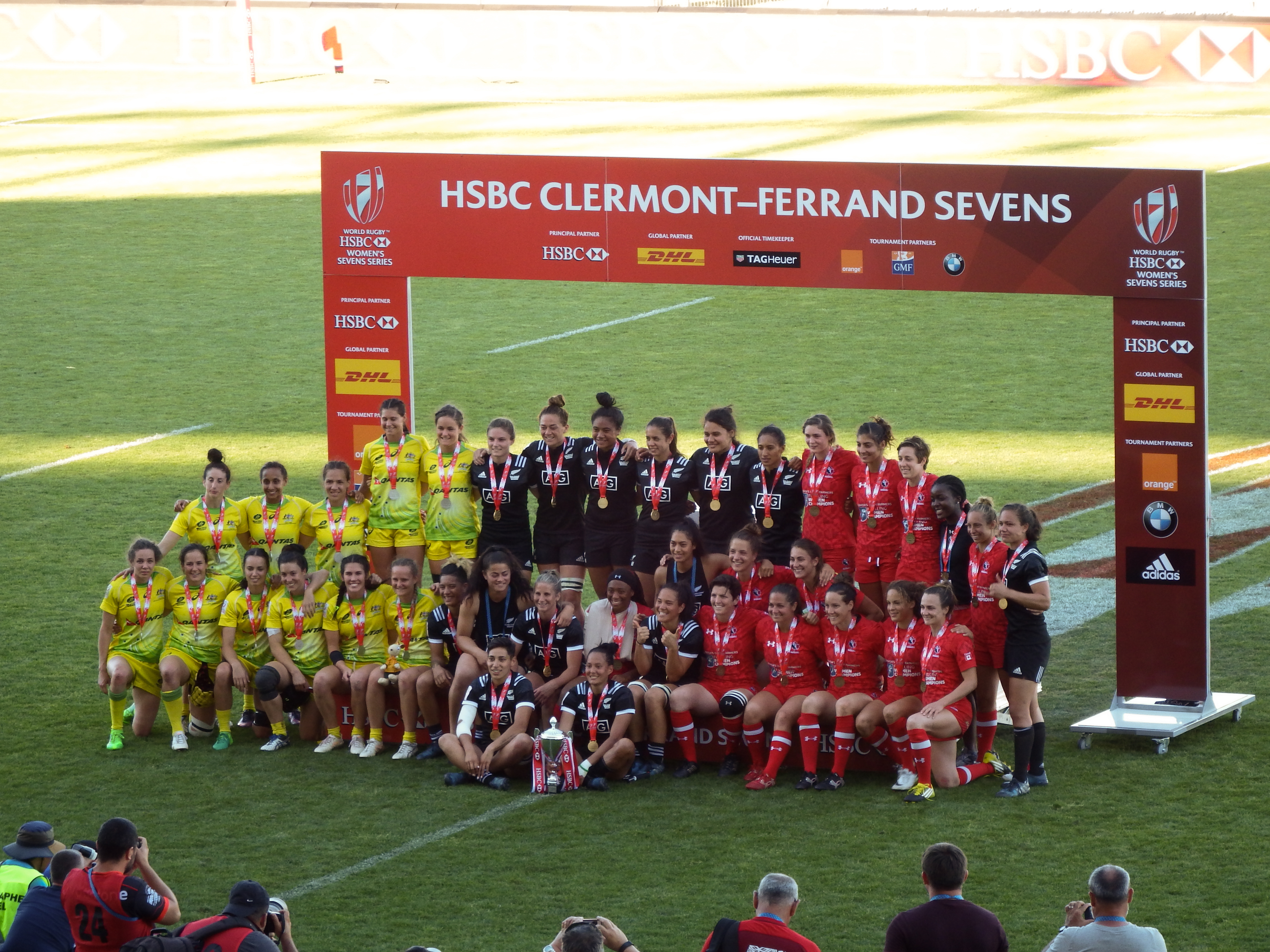 2017 France Women's Sevens — 25 June 2017, Stade Gabriel Montpied. Match between: New Zealand women's national rugby sevens team — Australia women's national rugby sevens team